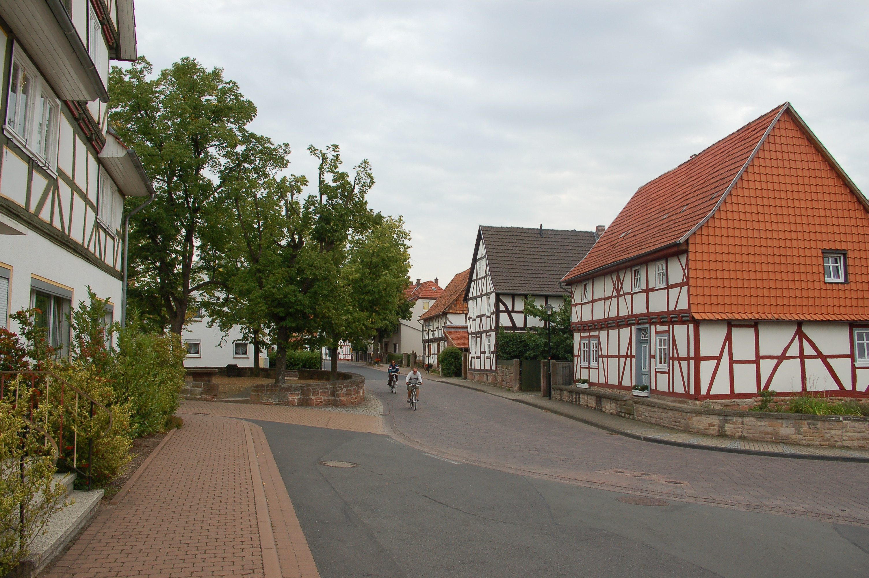 Jestädt (Hesse, Germany) with Common land (round, left) and house from 1586 (right)